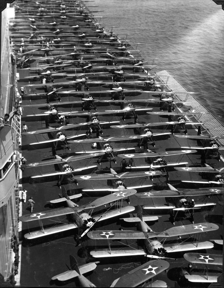 PictionID:38275095 - Catalog:AL-135B 136 - Filename:AL-135B 136.tif - This image is from a photo album donated to the Museum by JL Highfill which includes images taken in the Pacific during the Second World War-----------PLEASE TAG this image with any information you know about it, so that we can permanently store this data with the original image file in our Digital Asset Management System.-----------------SOURCE INSTITUTION: San Diego Air and Space Museum Archive